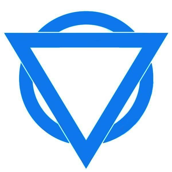 British band Enter Shikari logo